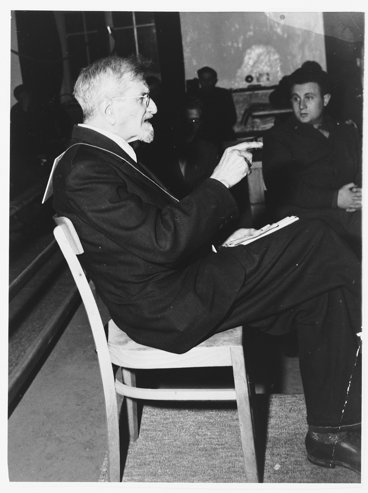 Defendant Dr. Klaus Schilling takes the stand in the Dachau trial. Dachau, [Bavaria] Germany